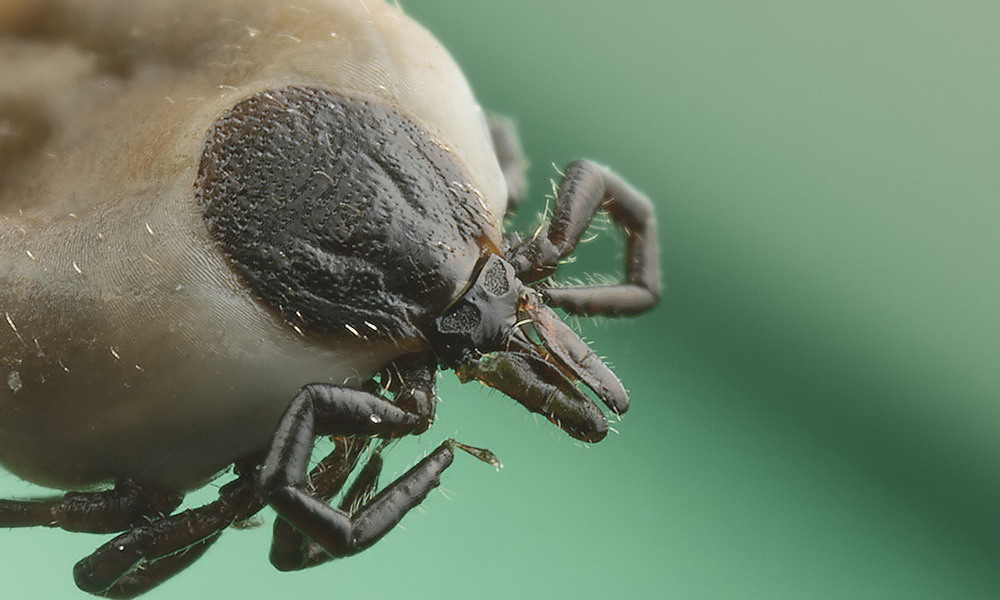 Description: Makroshot of the upper Torso and Head of a Tick